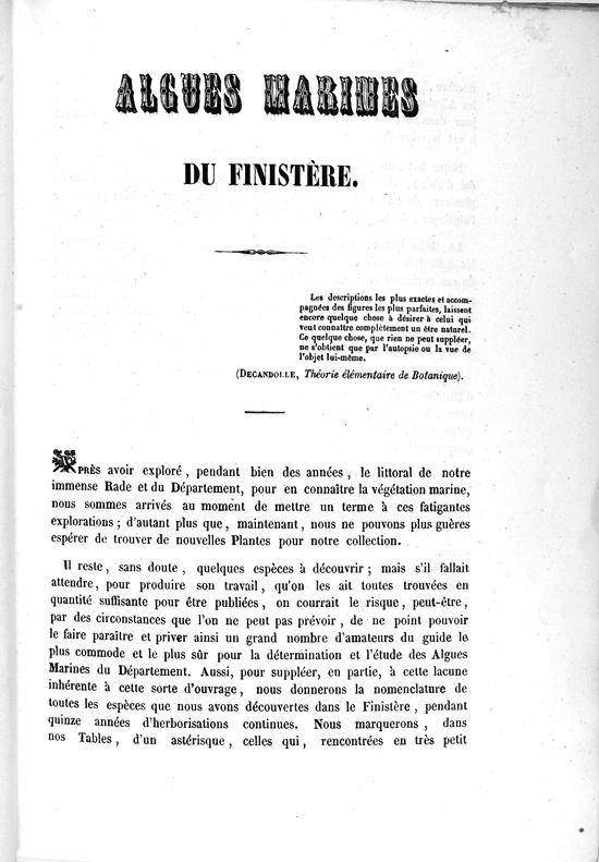 first page' Crouan brothers herbarium Algues marines du Finistère 1852